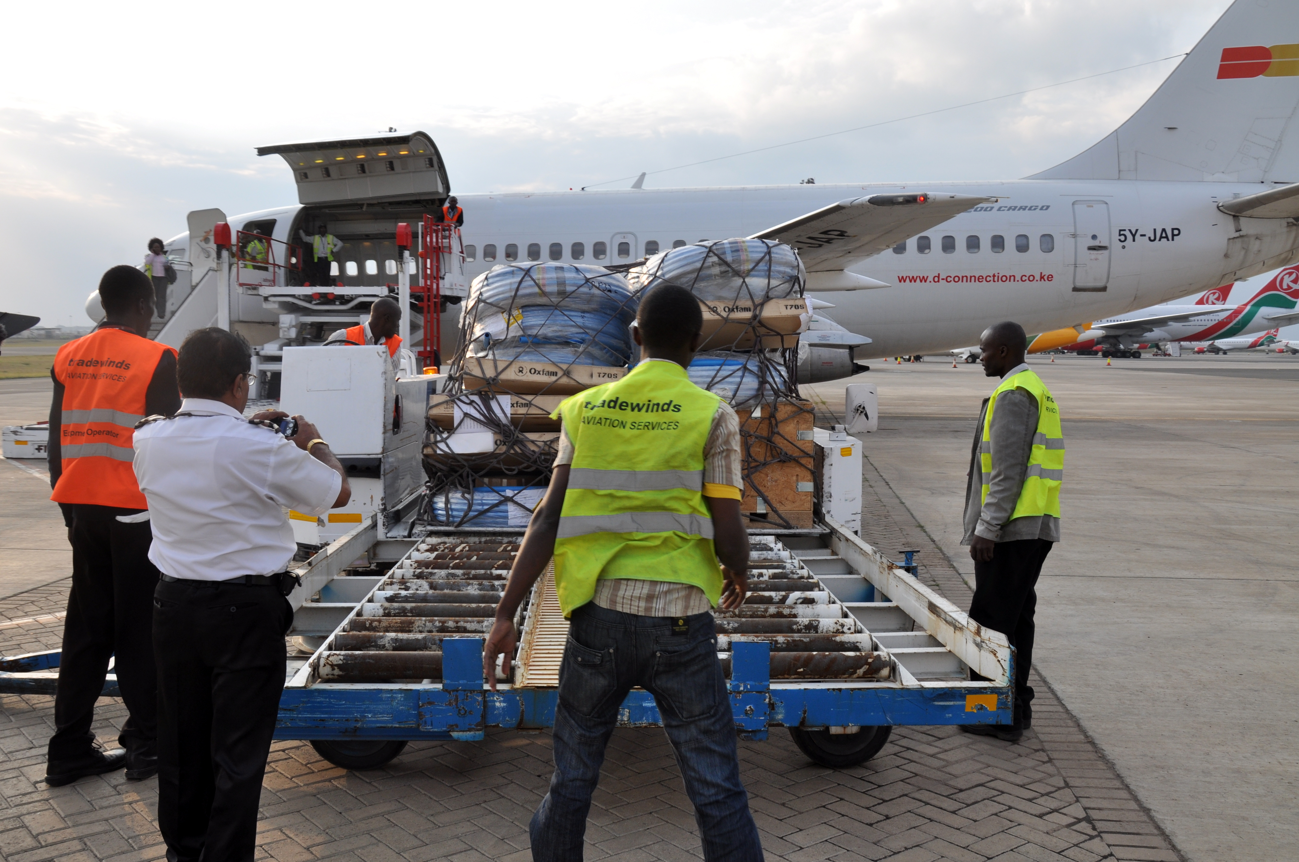 Starting to load the D-Connection Boeing 737-200 Cargo